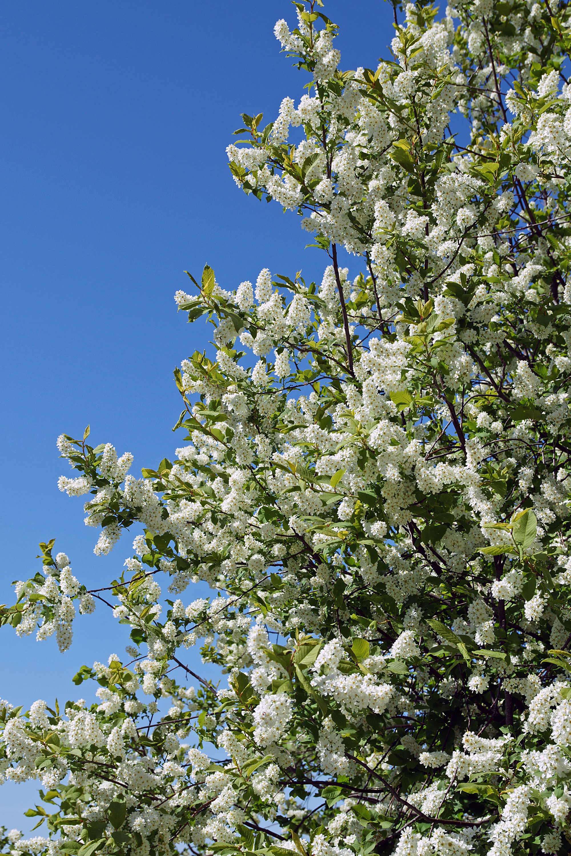 Blooming Prunus padus in Rauma, Finland.